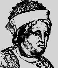 Levan II, Prince of Mingrelia. A sketch by the Catholic missionaire Don Cristoforo De Castelli